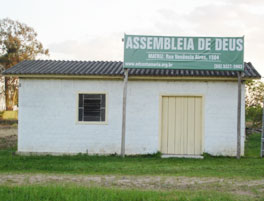 Igreja Assembléia de Deus em Santa Maria no bairro Palma